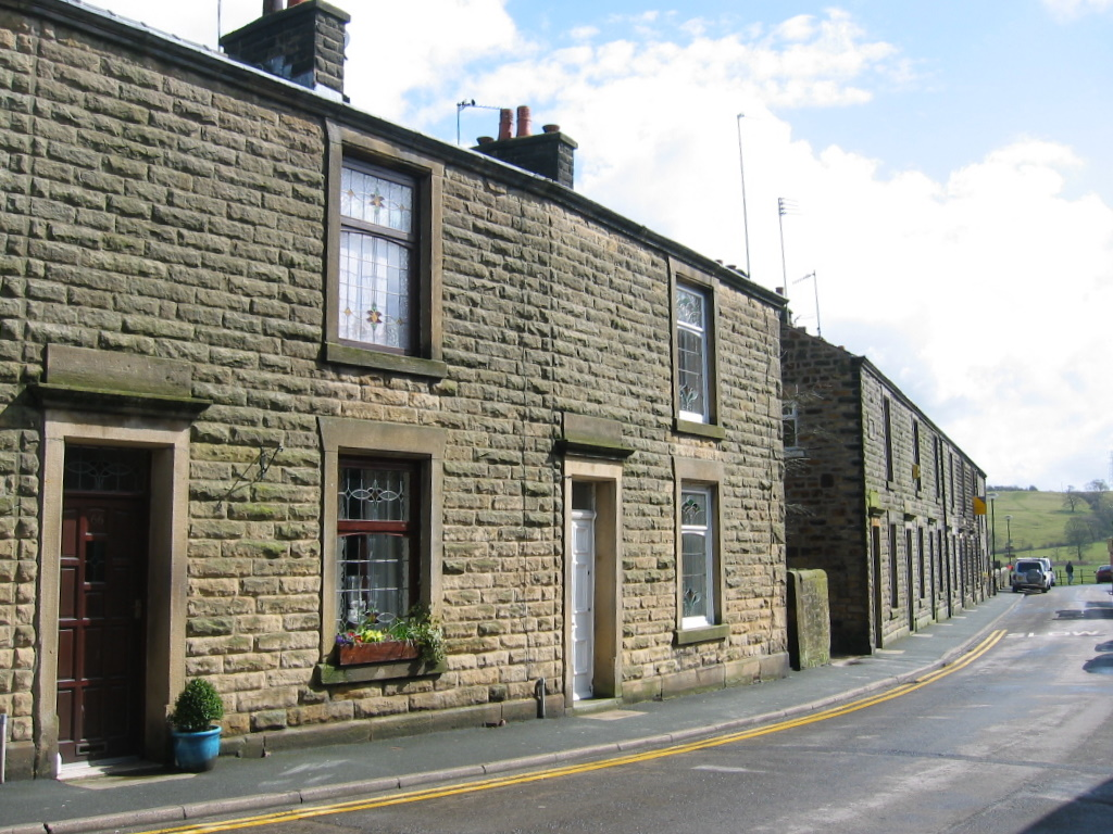 Church Street, Ribchester. Photo taken by Dudesleeper on April 11, 2006.